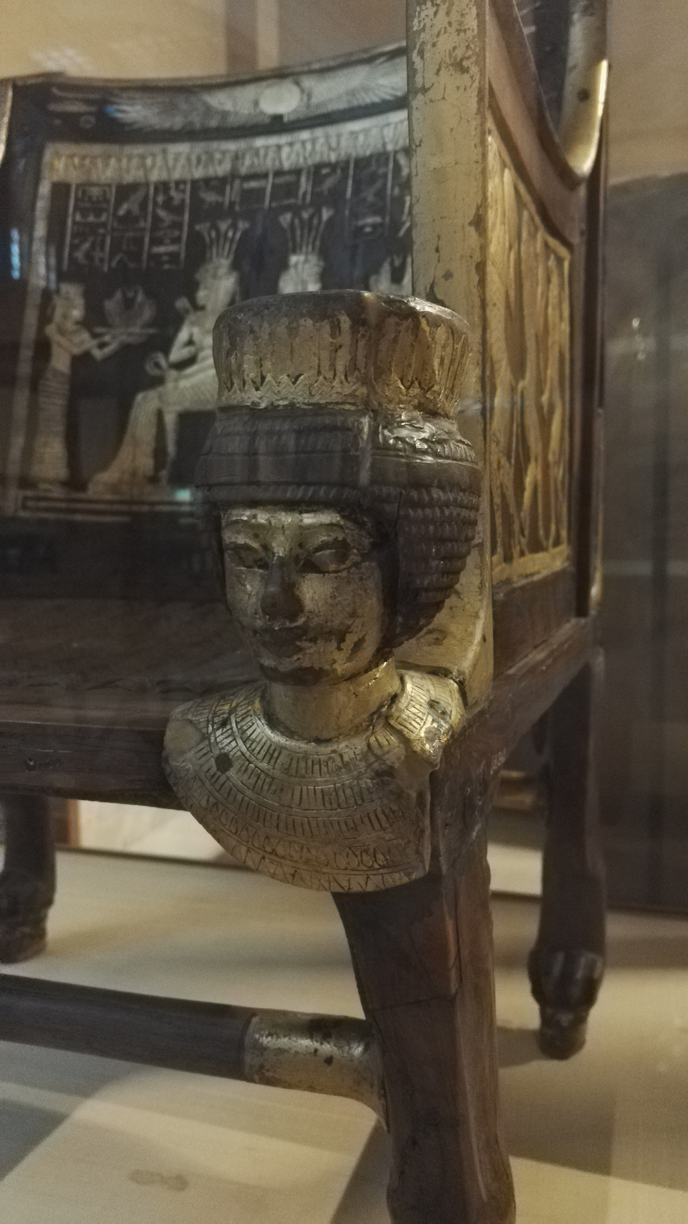 Detail of a throne of Princess Sitamun of the 18th dynasty of Egypt, in the Egyptian Museum, Cairo.